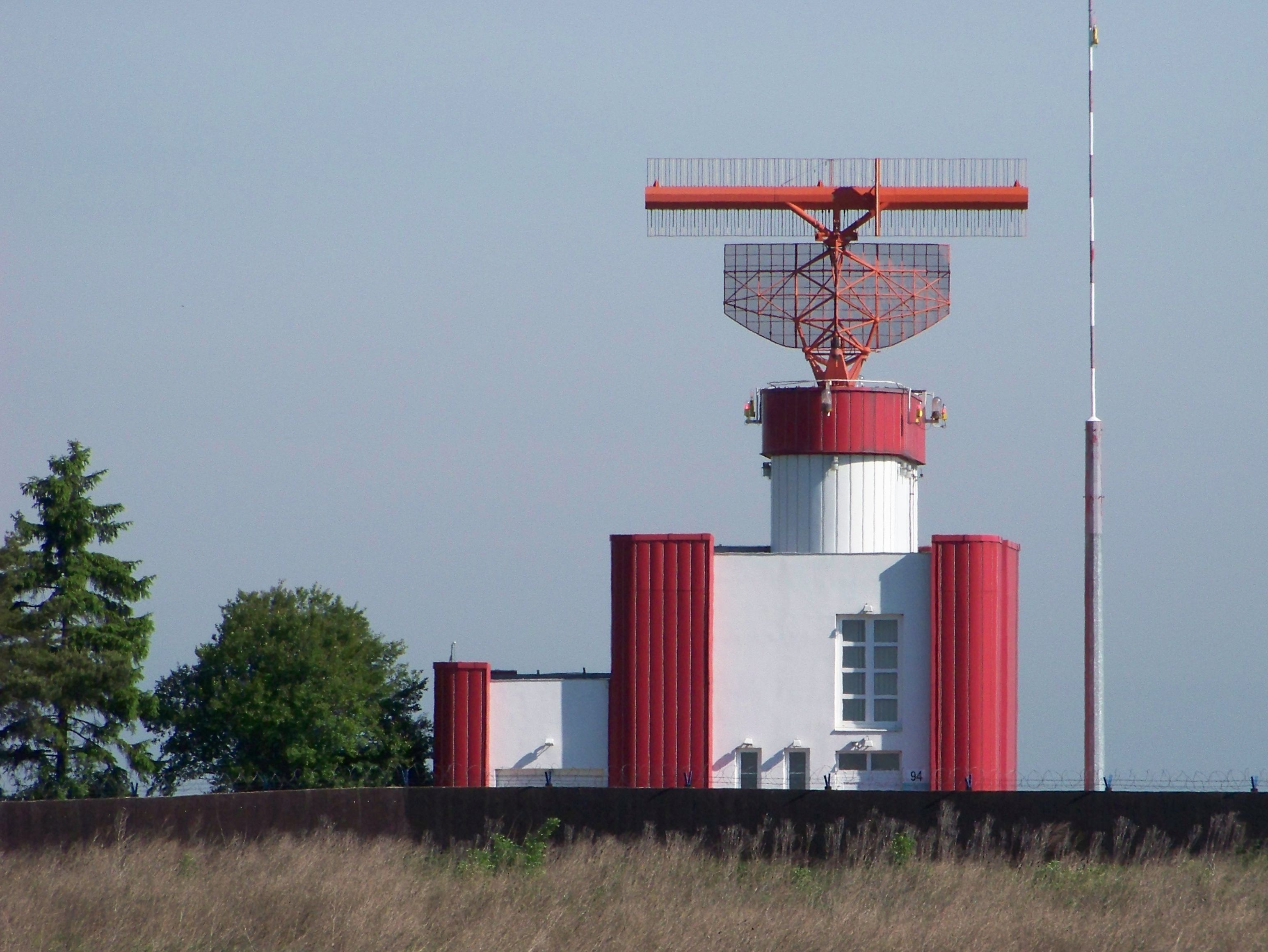 Prague-Ruzyně, the Czech Republic. Ruzyně Airport, a radar tower near Hostivice.